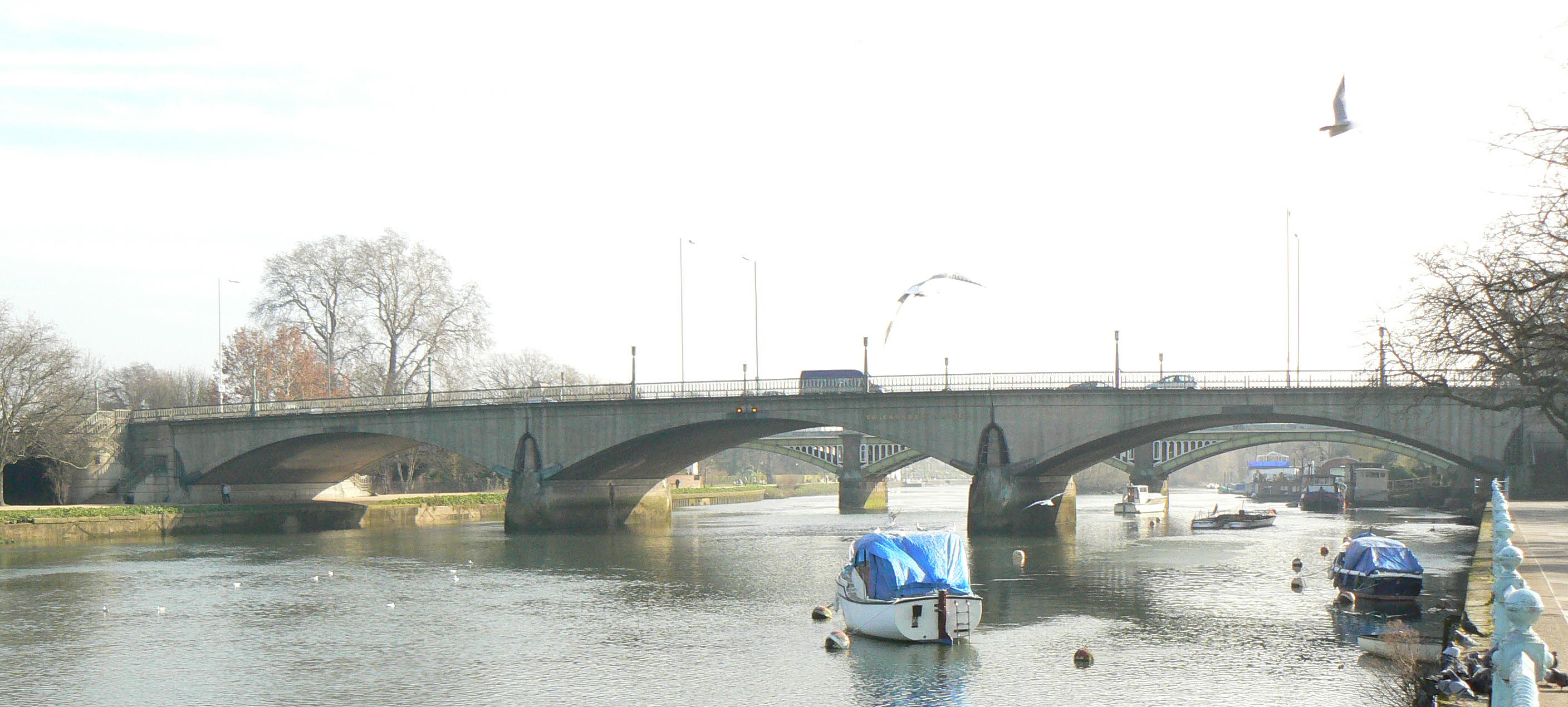 Twickenham Bridge looking upstream